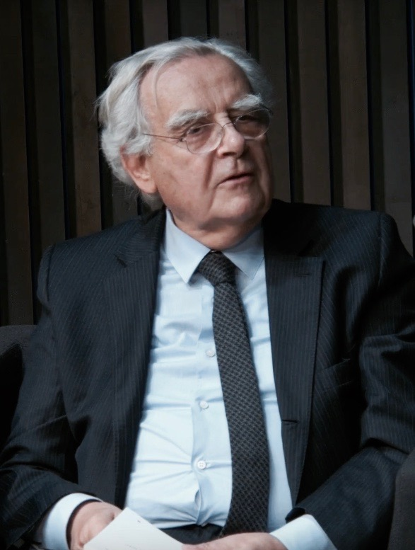 Bernard Pivot is a French journalist